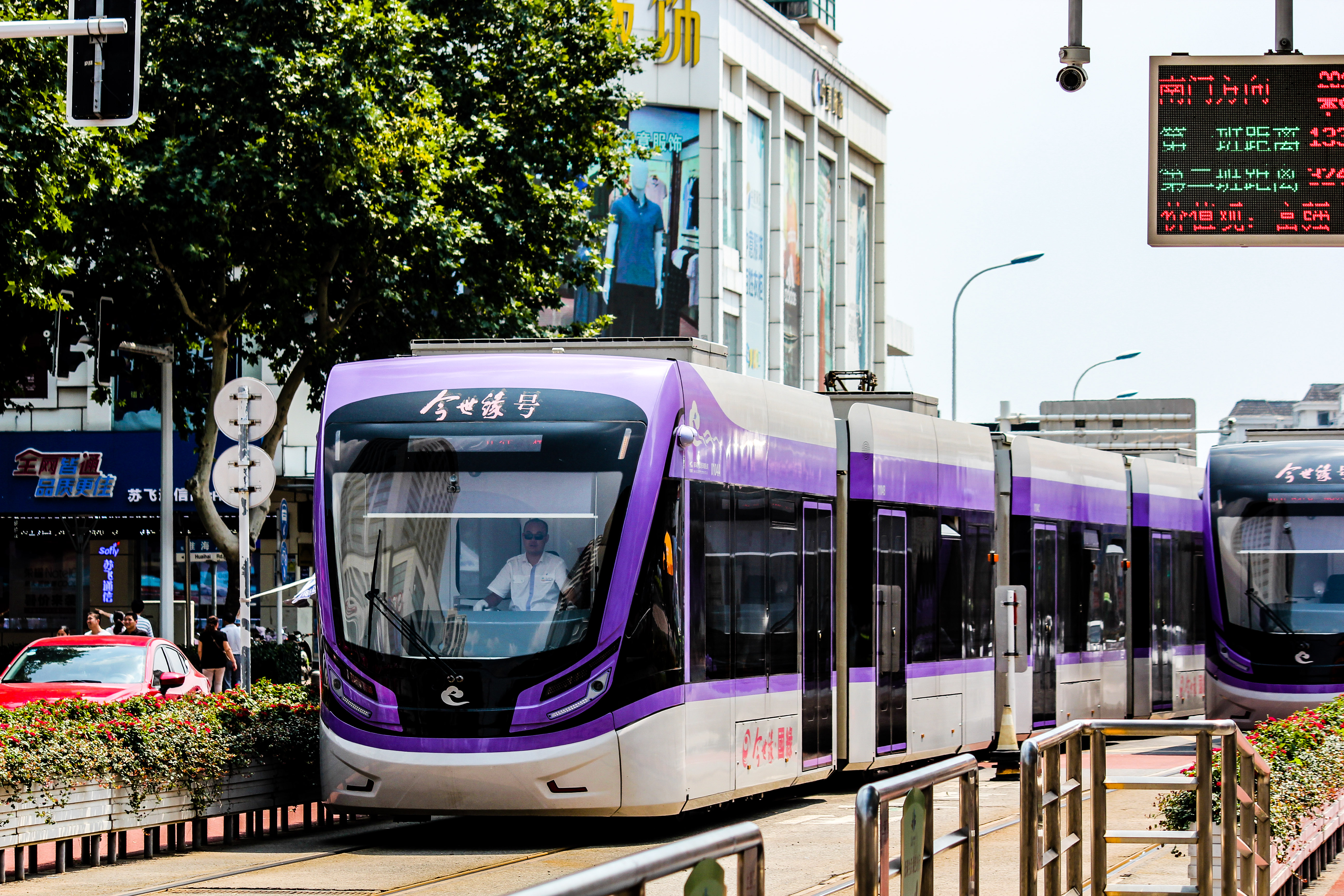 Huaian Trams Line 1 E.Huaihai Road Station